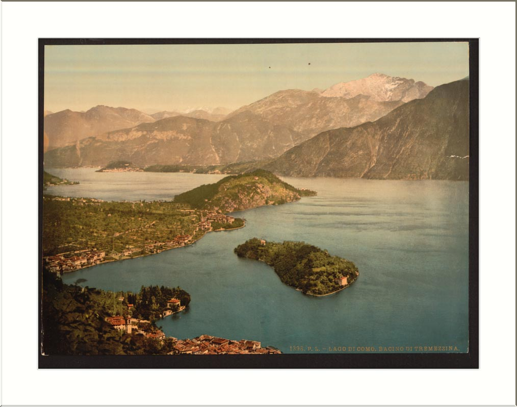 Tremezzina Bay Como Lake of Italy